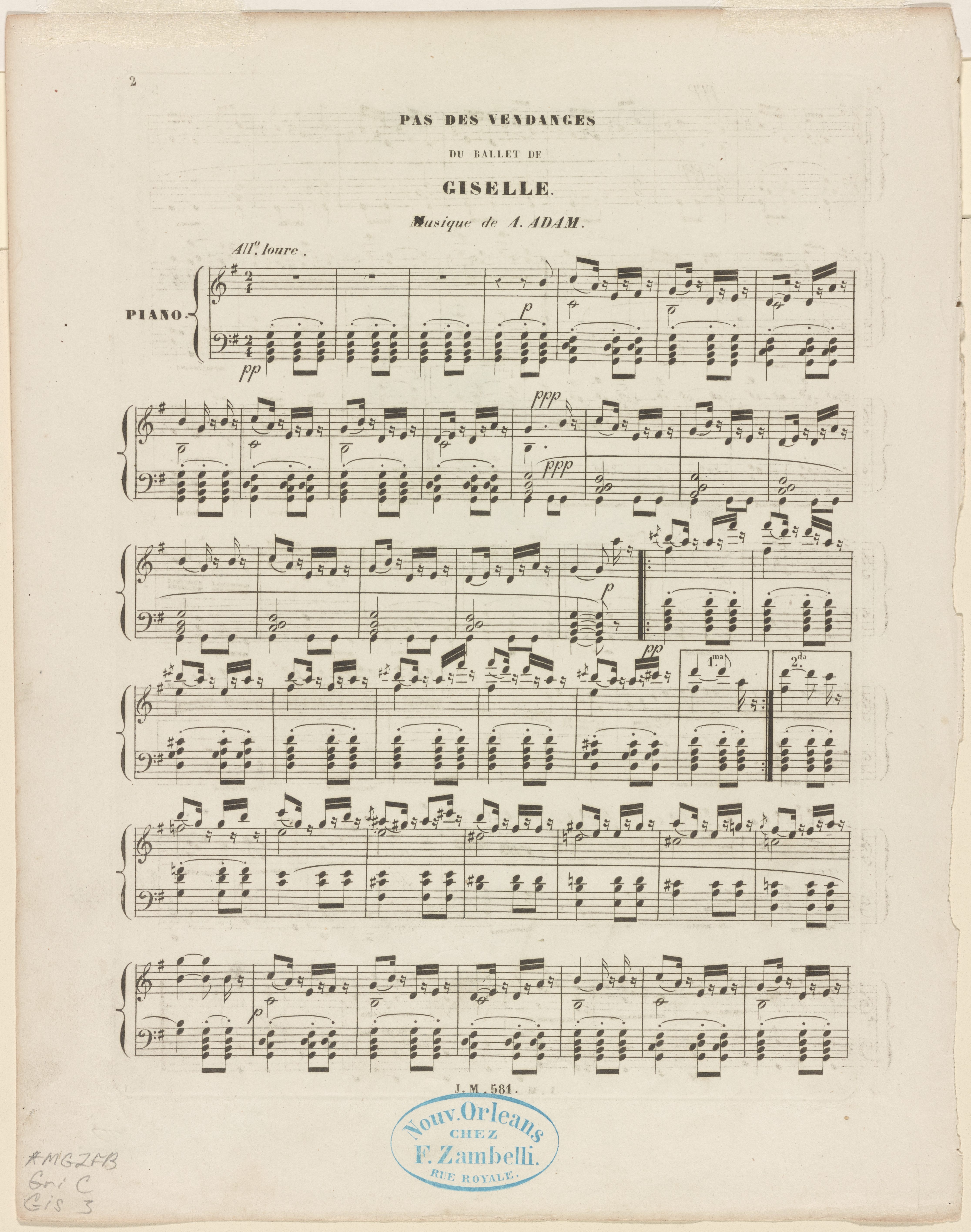 Full-length to left; both Petipa and Grisi balanced on their left foot with right foot extended behind them. Wearing the costumes from the first act.